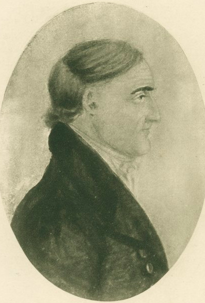 Col Simeon Perkins of Liverpool, Nova Scotia. New York Public Library